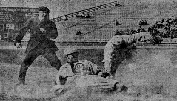 Pacific Coast League umpire Bush calling Oakland Oaks player Bill Leard safe at third base was Portland Beavers third baseman Mike McCormack.